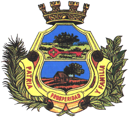 Coat of Arms of the Cuban city of Santa Clara.